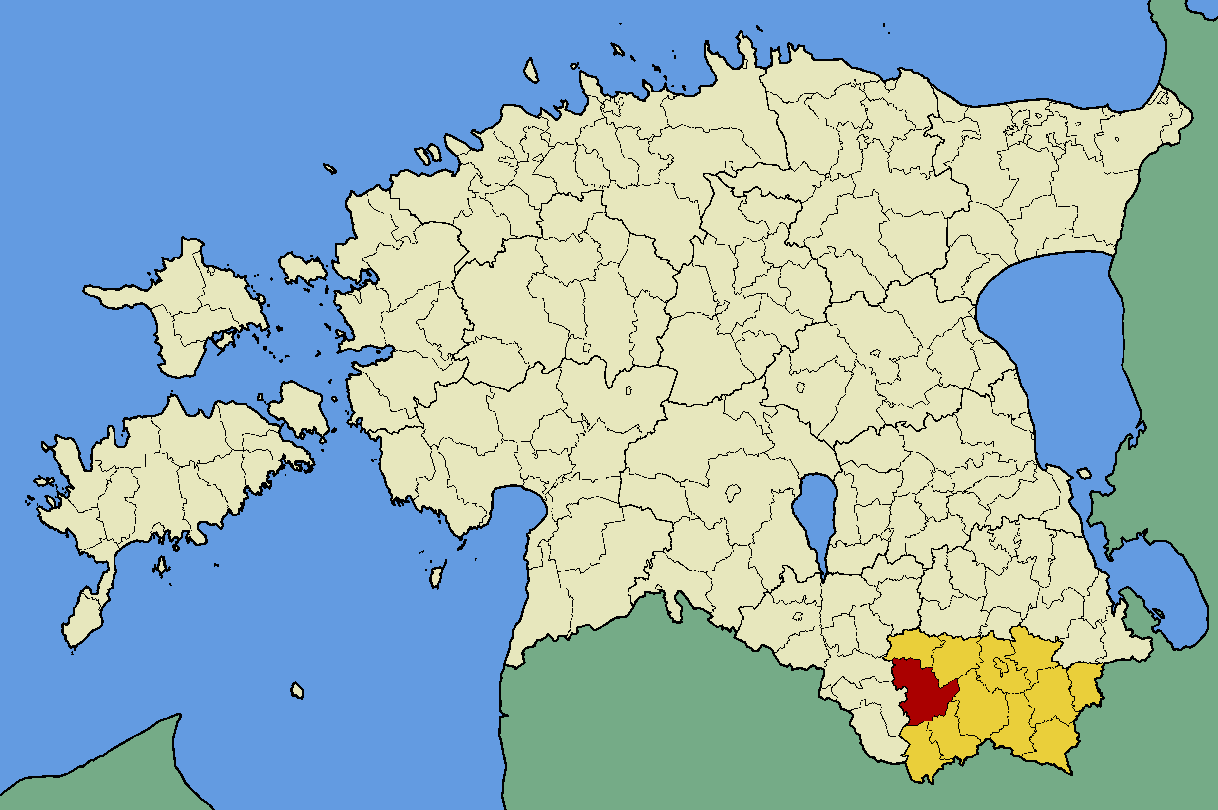 Map of Estonia with borders of municipalities (parishes). Võru county and Antsla municipality emphasized.